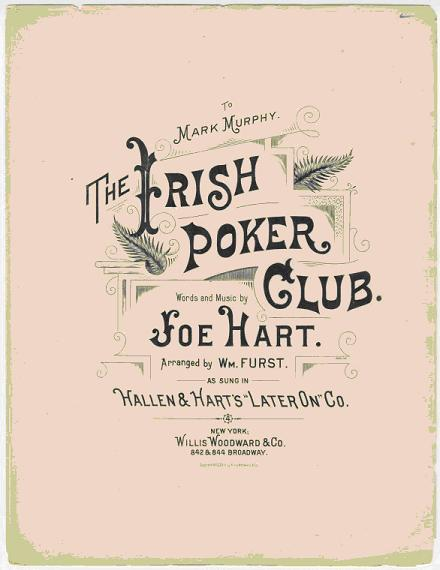 Music by Vaudeville Entertainer Joseph Hart